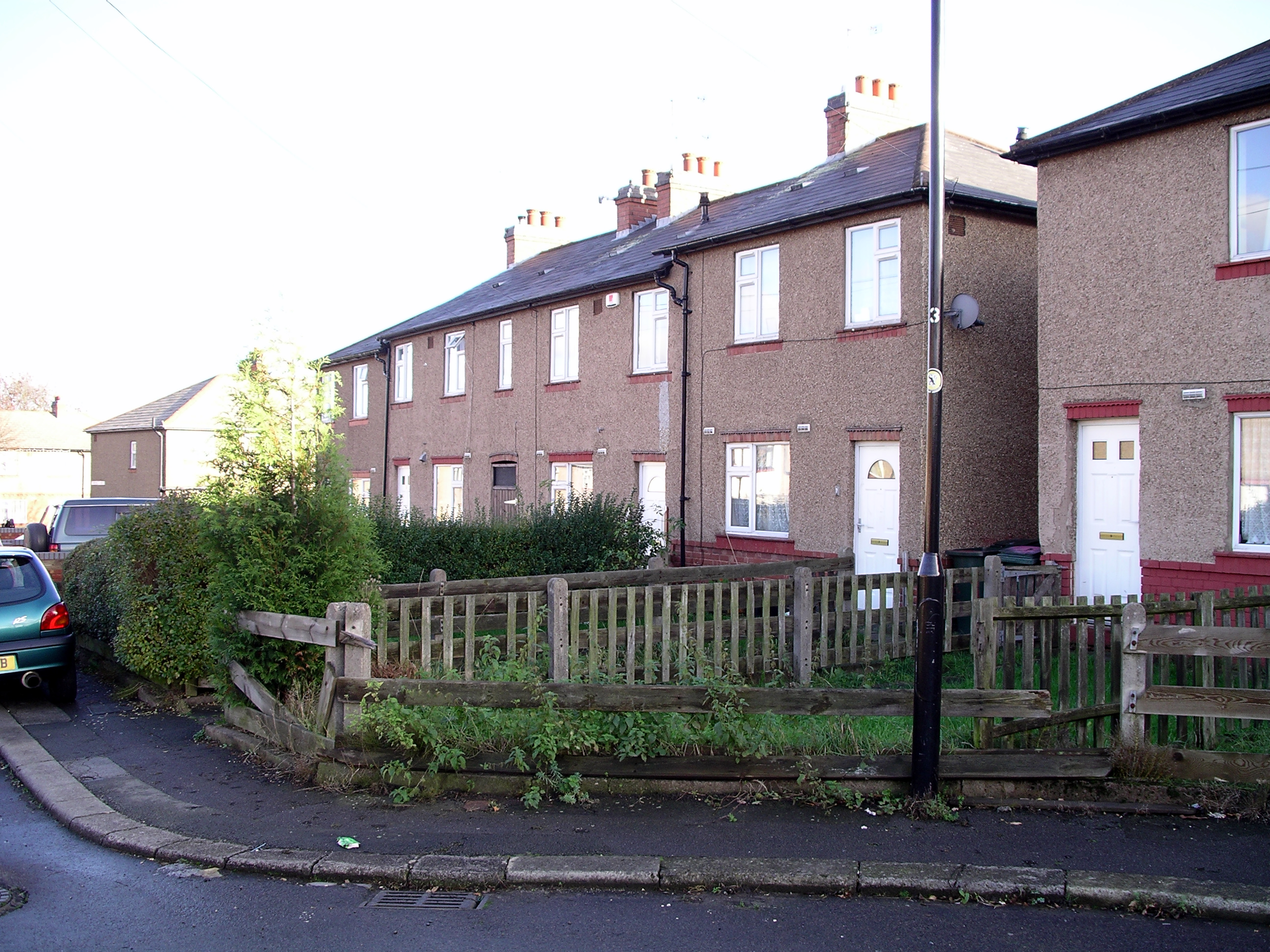 Photo of a Stoke Aldermoor terrace. Stoke Aldermoor is a suburb of Coventry, England. I understand that this was where the TV series was filmed. The frontages of one of the houses was changed for the TV series and has now been changed back.